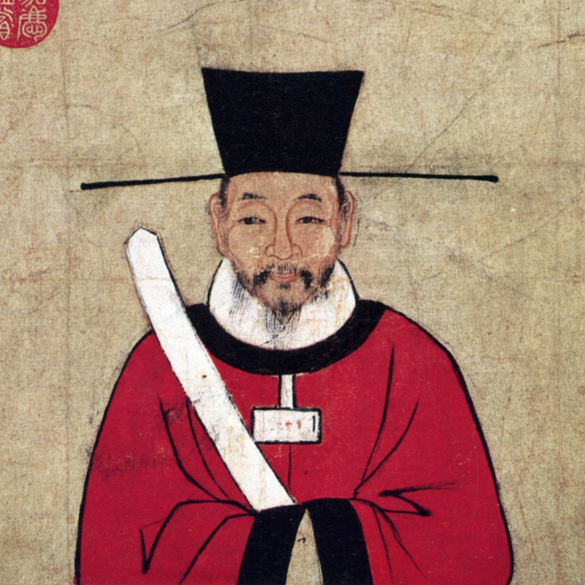 Contemporary painting of Sima Guang (司馬光) of the Song dynasty. Hand scroll, color on paper. Size 24.8 x 34.8 cm (height x width). Painting is located in the National Palace Museum, Taipei. (See: Page 102 of 故宮圖像選萃 (Gu gong tu xiang xuan cui) Masterpieces of Chinese Portrait Painting in the National Palace Museum. Taipei: National Palace Museum. 1971.)